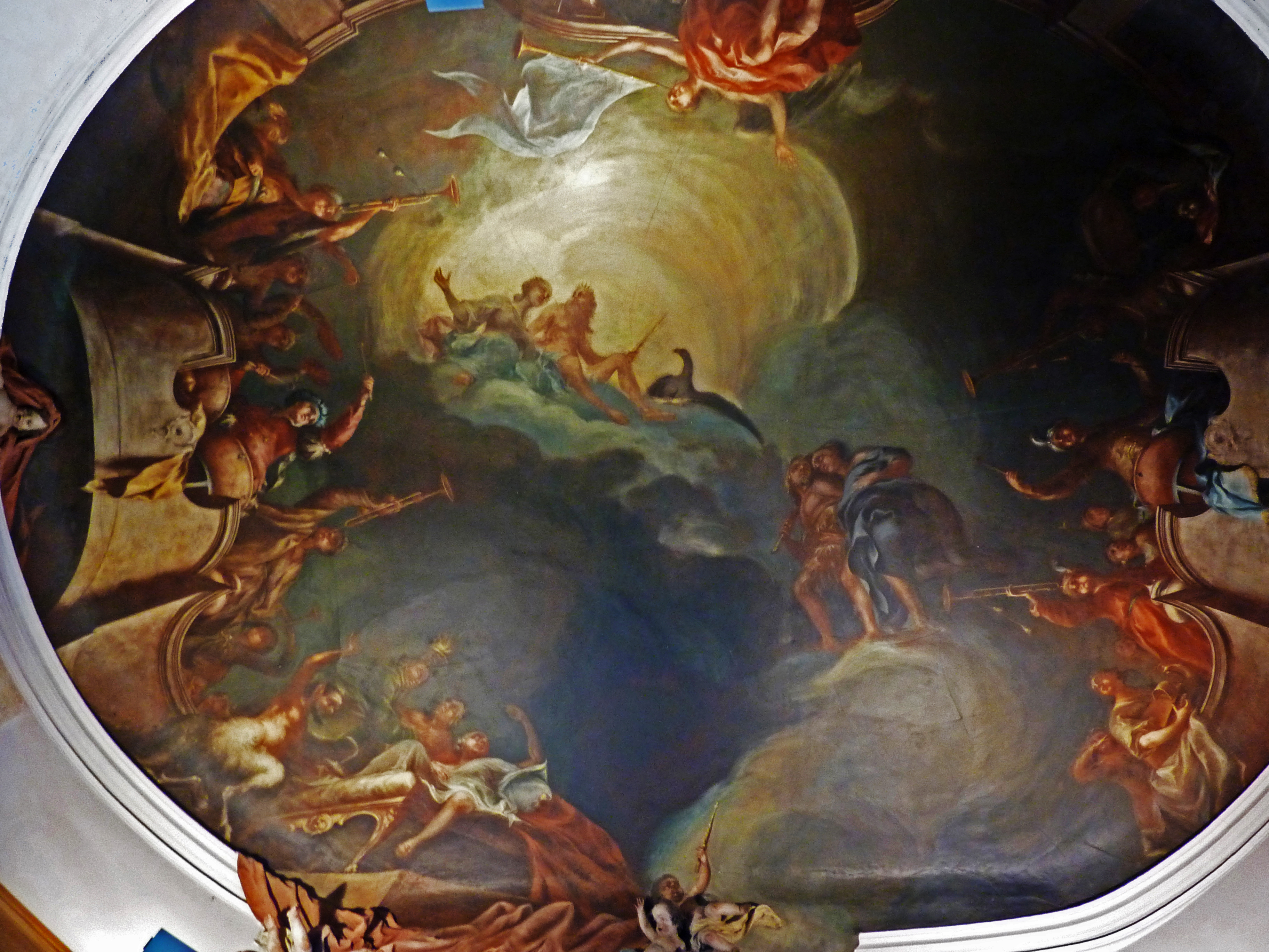 Ceiling fresco over the staircase of the Museum for City History, Freiburg (Wentzinger House)